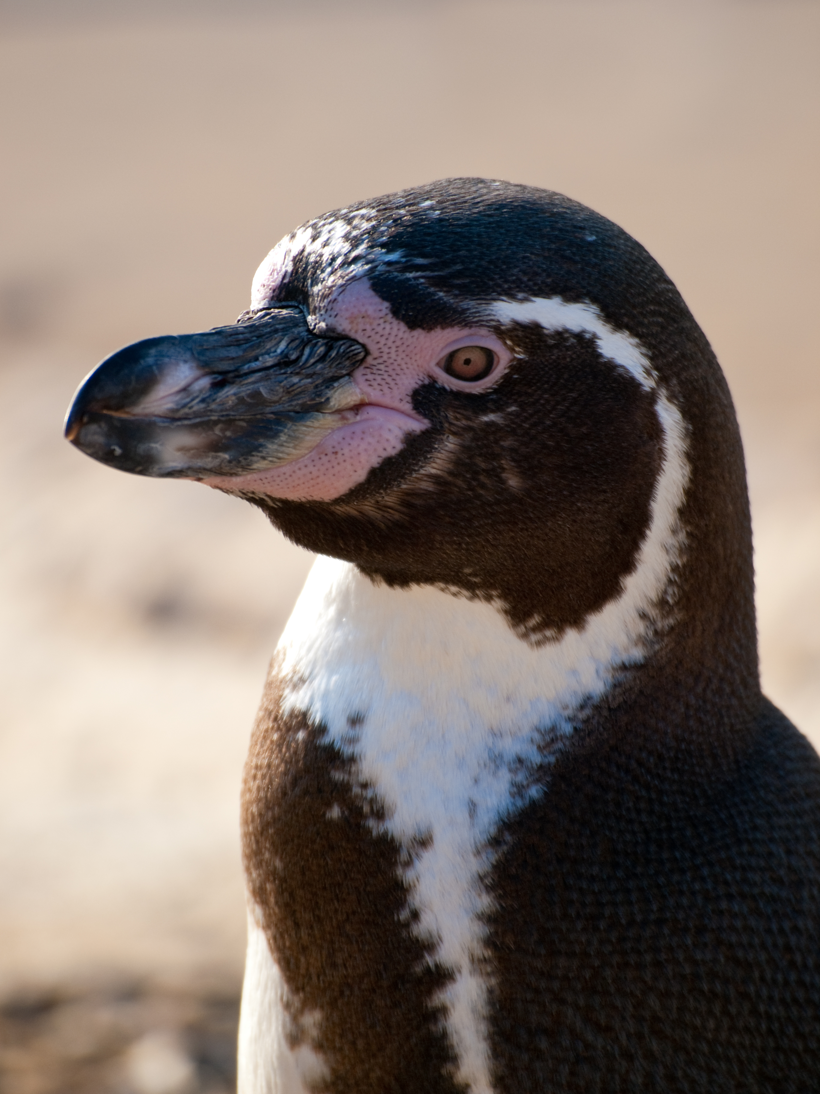 Humboldt Penguin at Whipsnade Zoo, England.